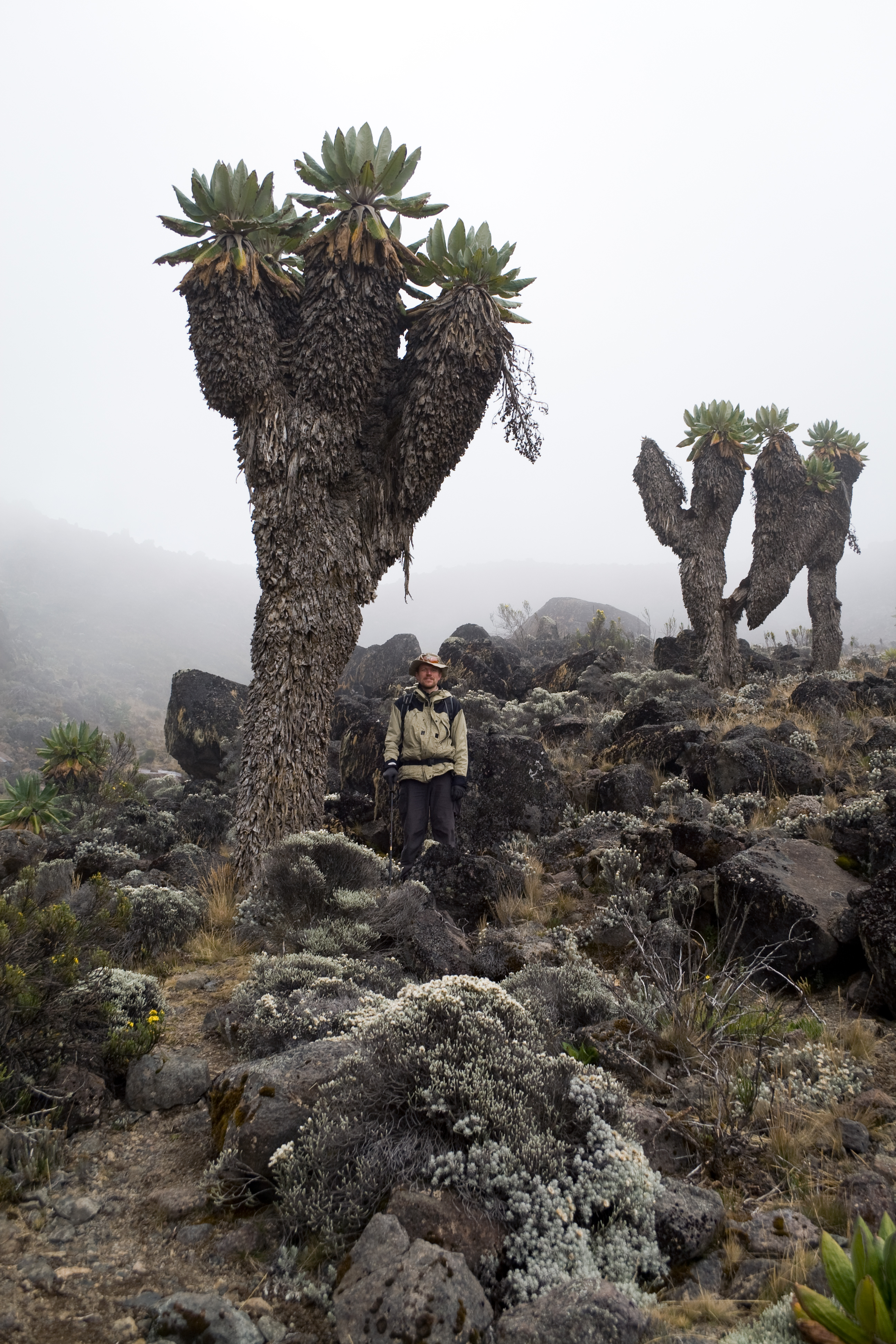 Jim besides a Giant Tree Groundsel.